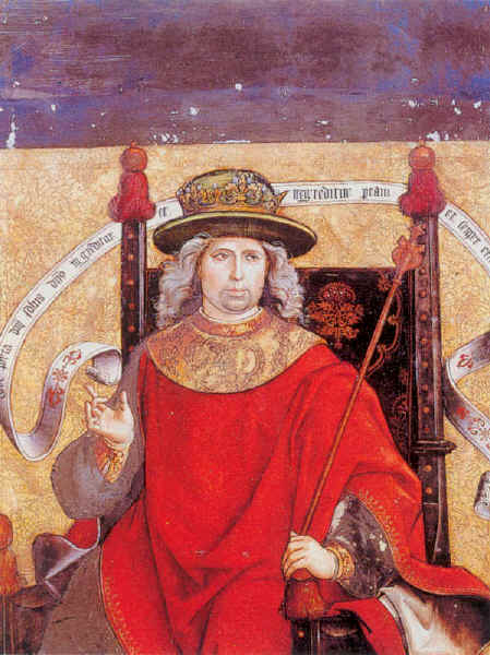 Detail of a painting showing Ezekiel, Spanish language title "Ezequiel"